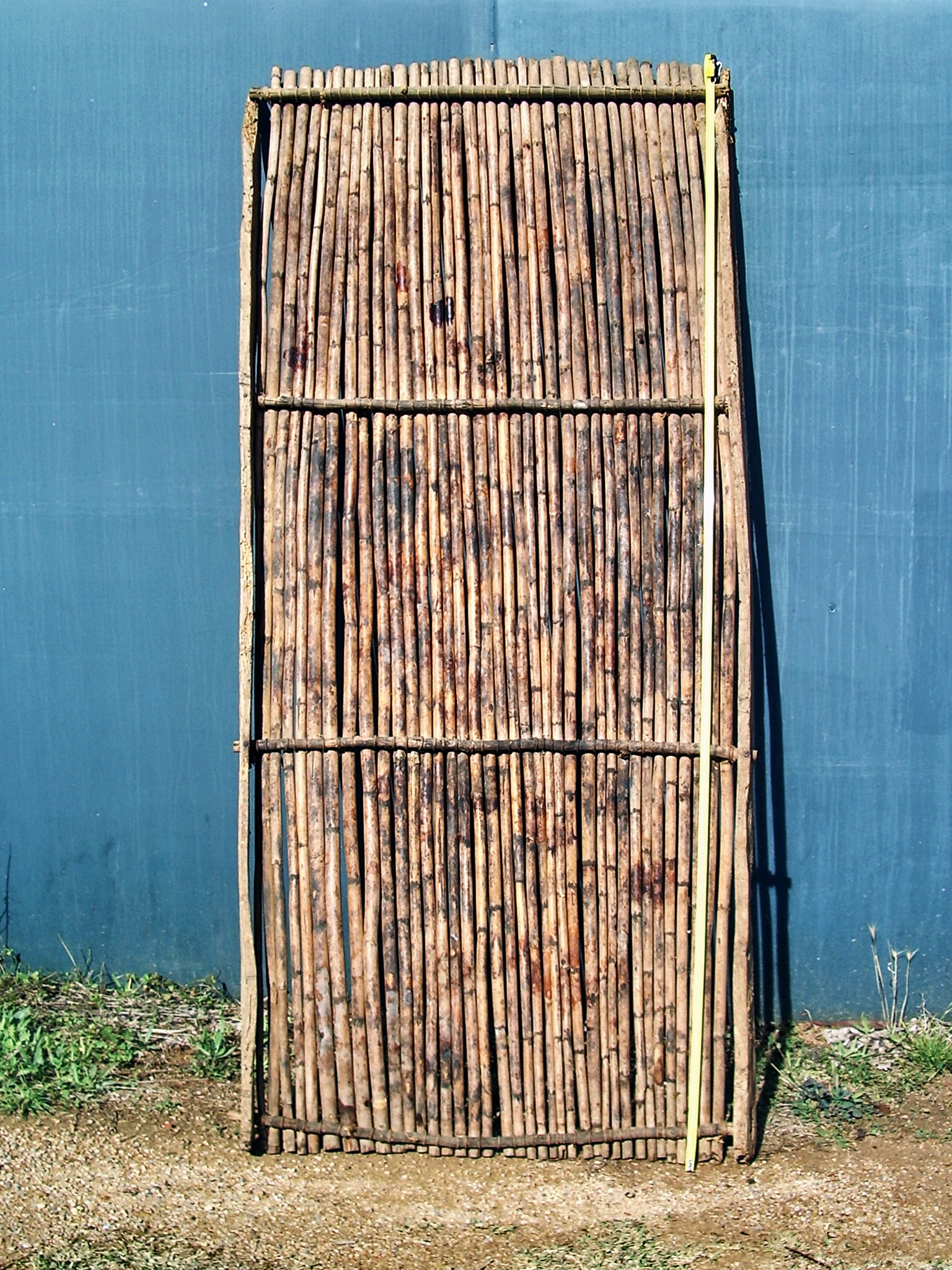 Traditionna fruit tray in Provence